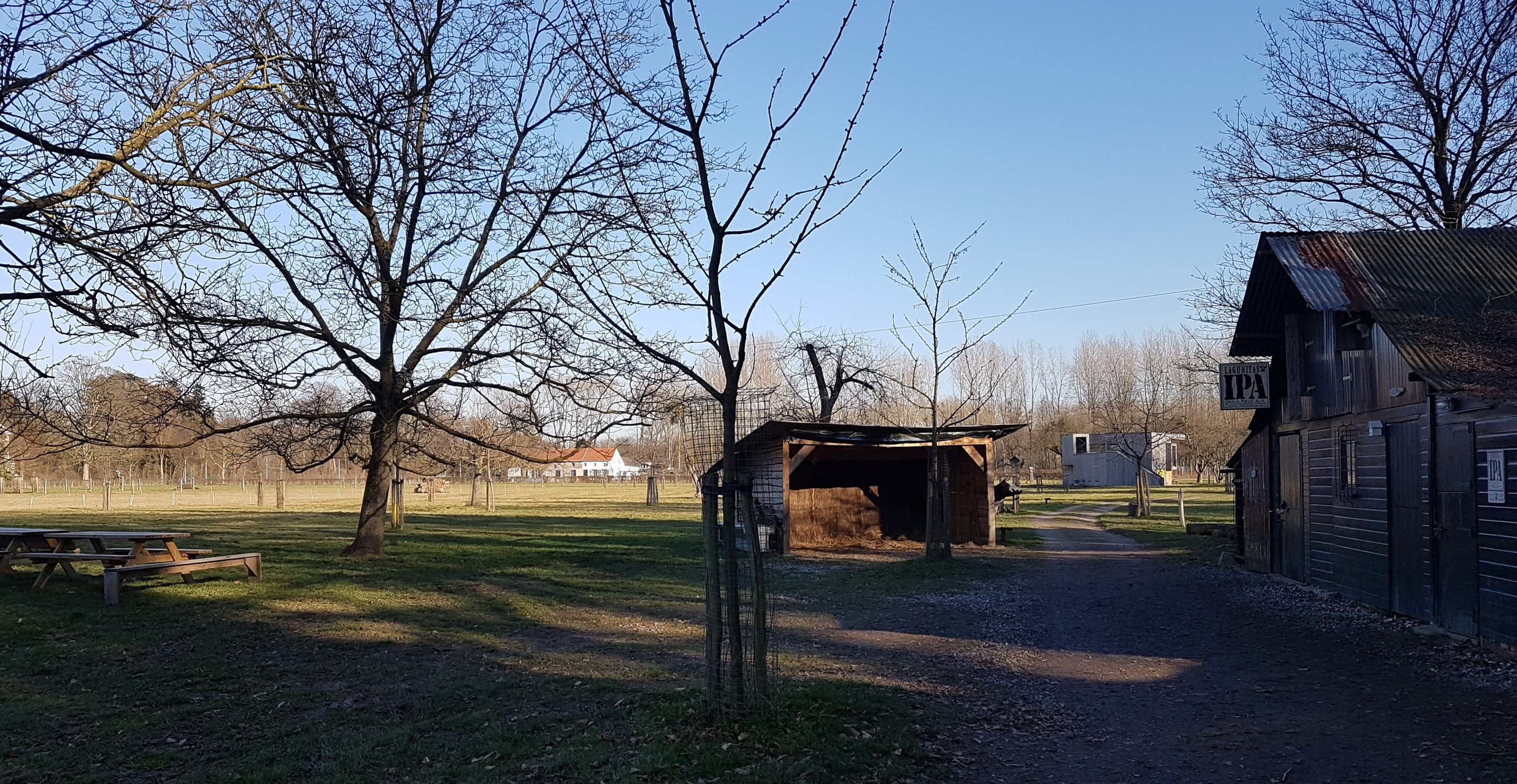 Orchard of Vaeshartelt Castle in Maastricht, Netherlands.